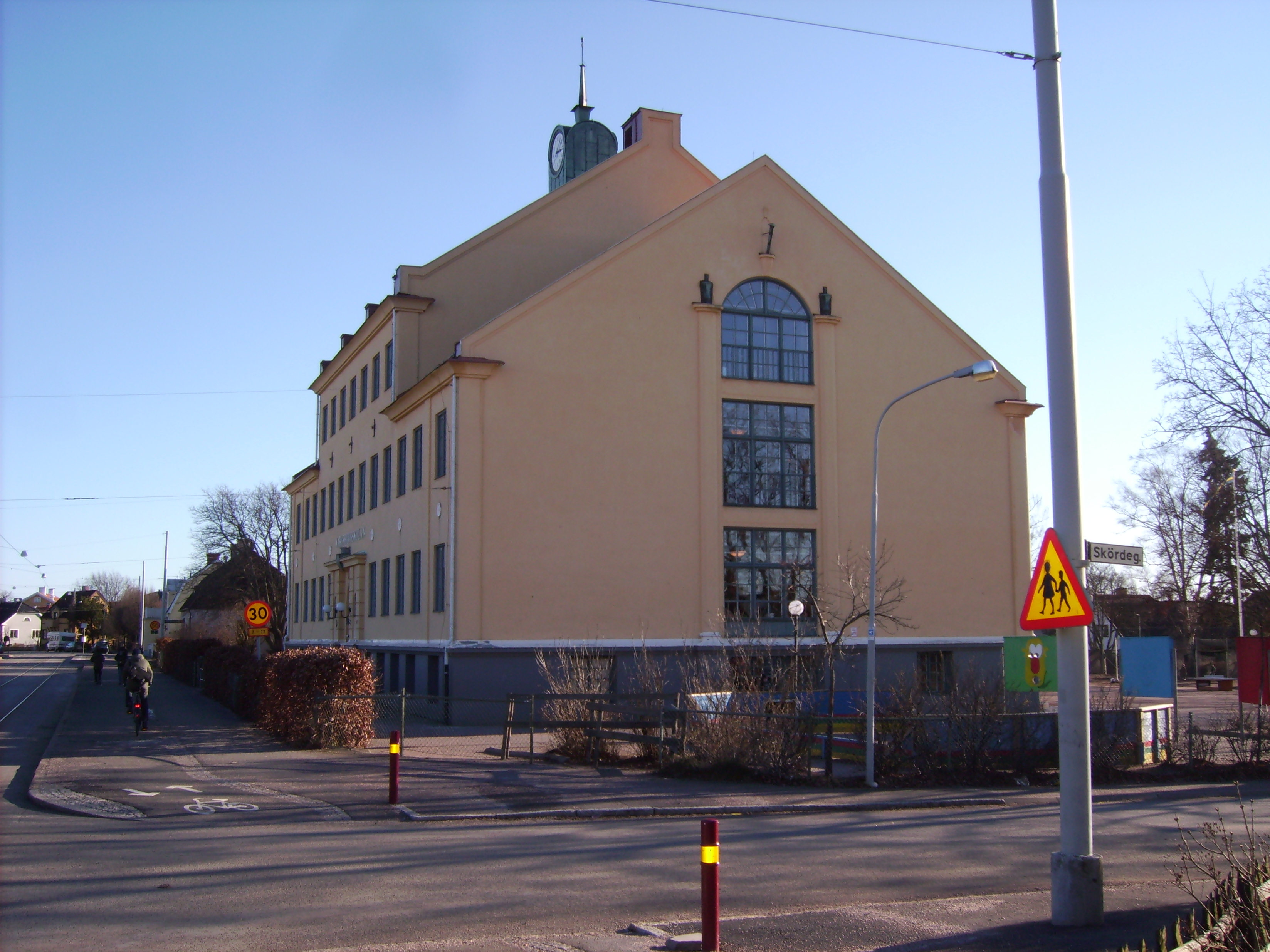 The school ”Karlshovsskolan”, from the year 1927 in (the parish) Östra Eneby, Norrköping, Sweden.